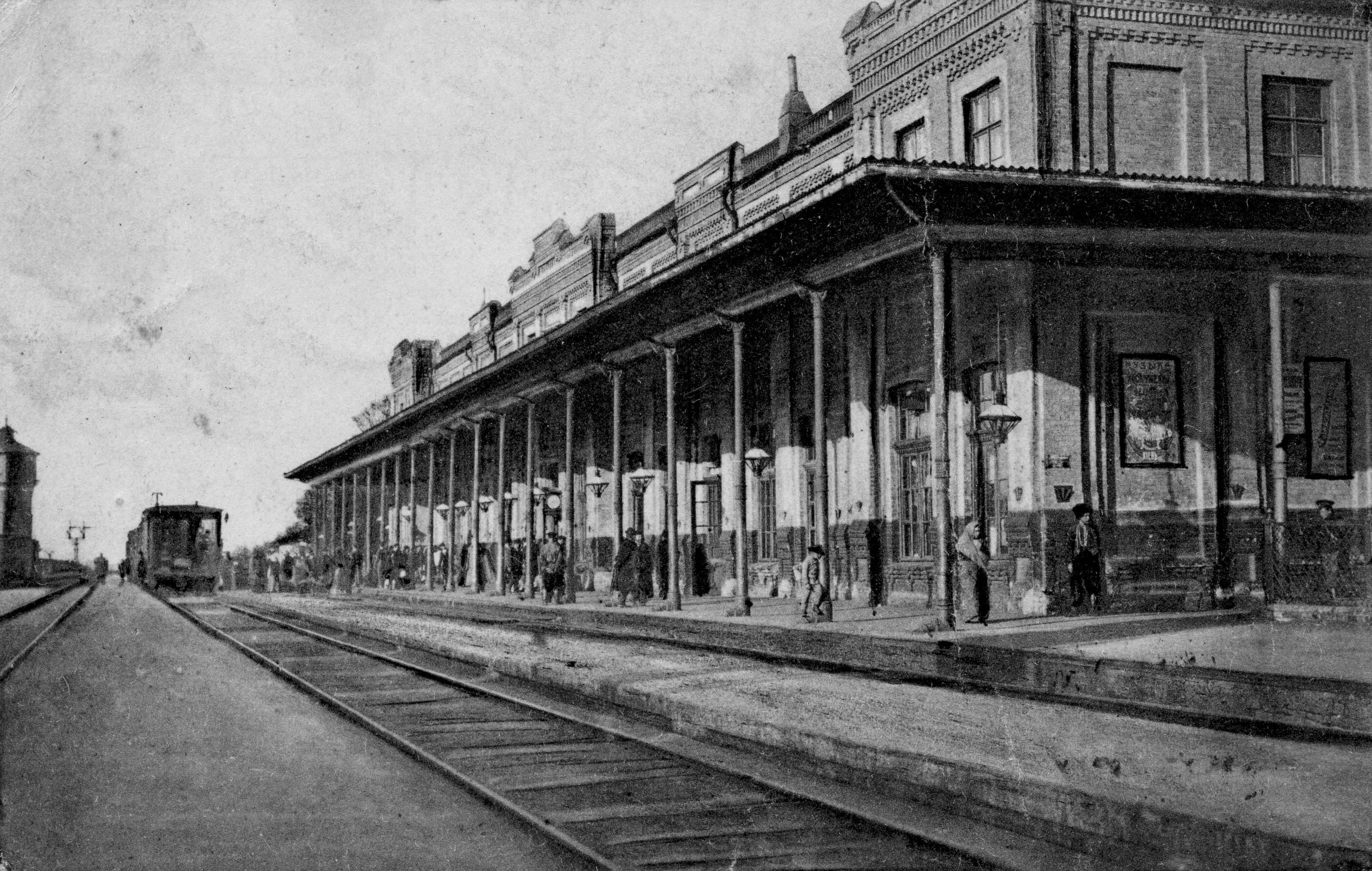 Fastiv, city in central Ukraine (till 1917 in tsarist Russia)